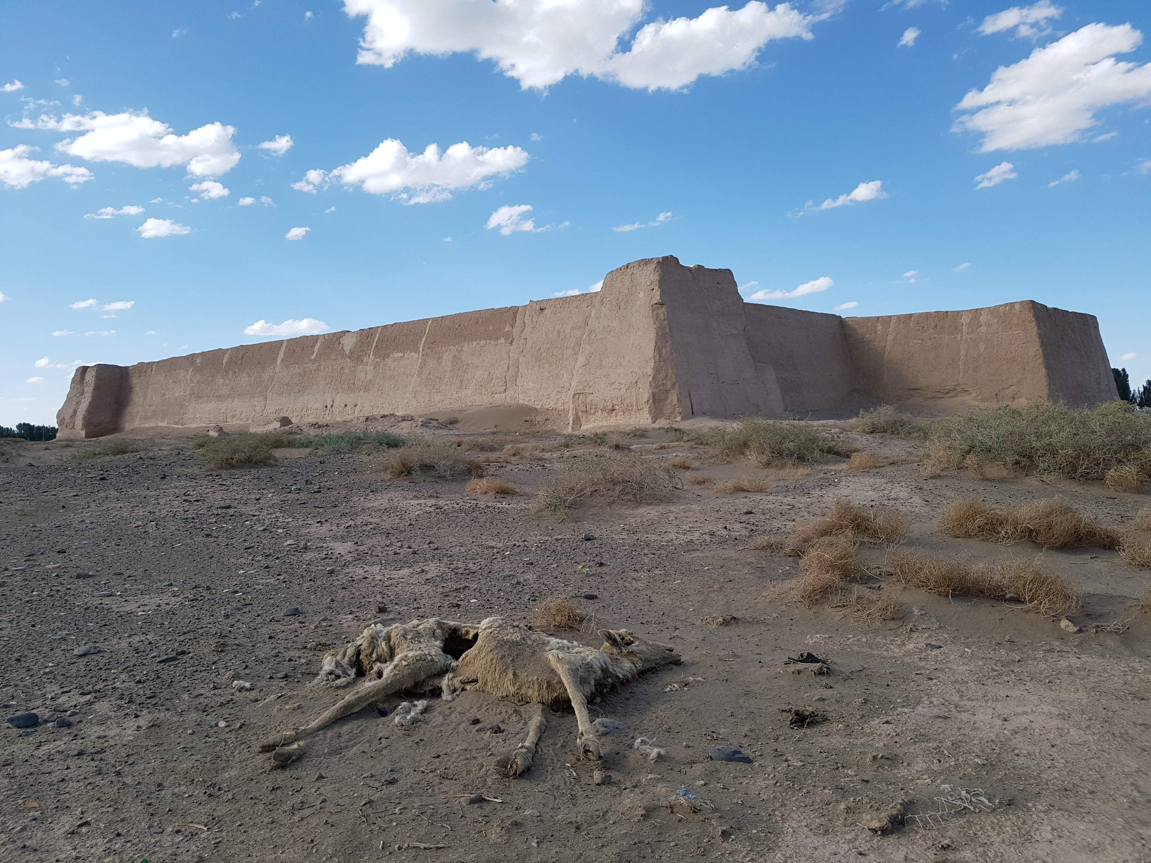 Xusanwan ruins in Gansu, China, with a mummified sheep 中文（中国大陆）: 甘肃许三湾古城遗址外的绵羊木乃伊